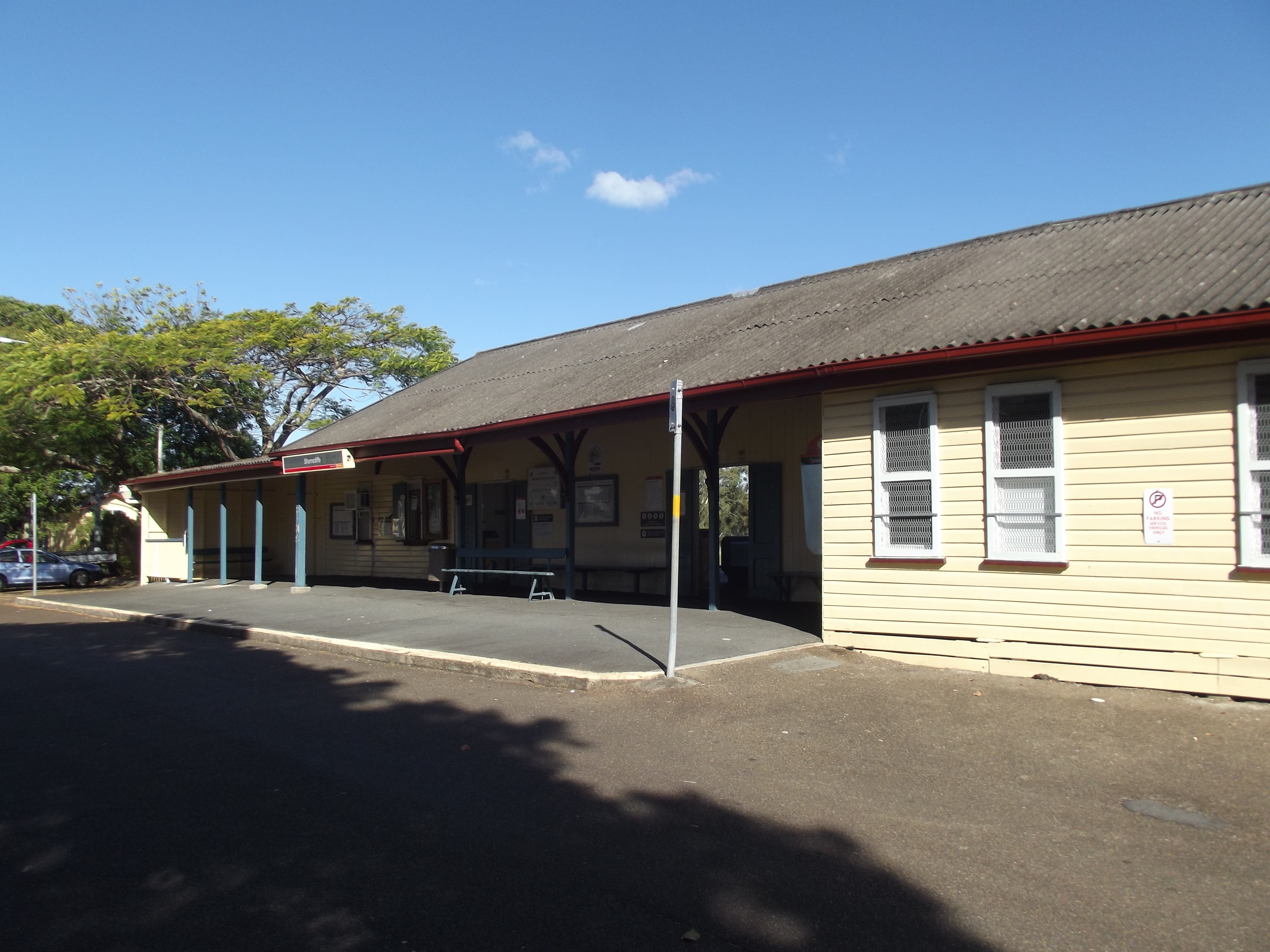 A photo of the Shorncliffe railway station, operated by TransLink, located in Brisbane, Queensland.